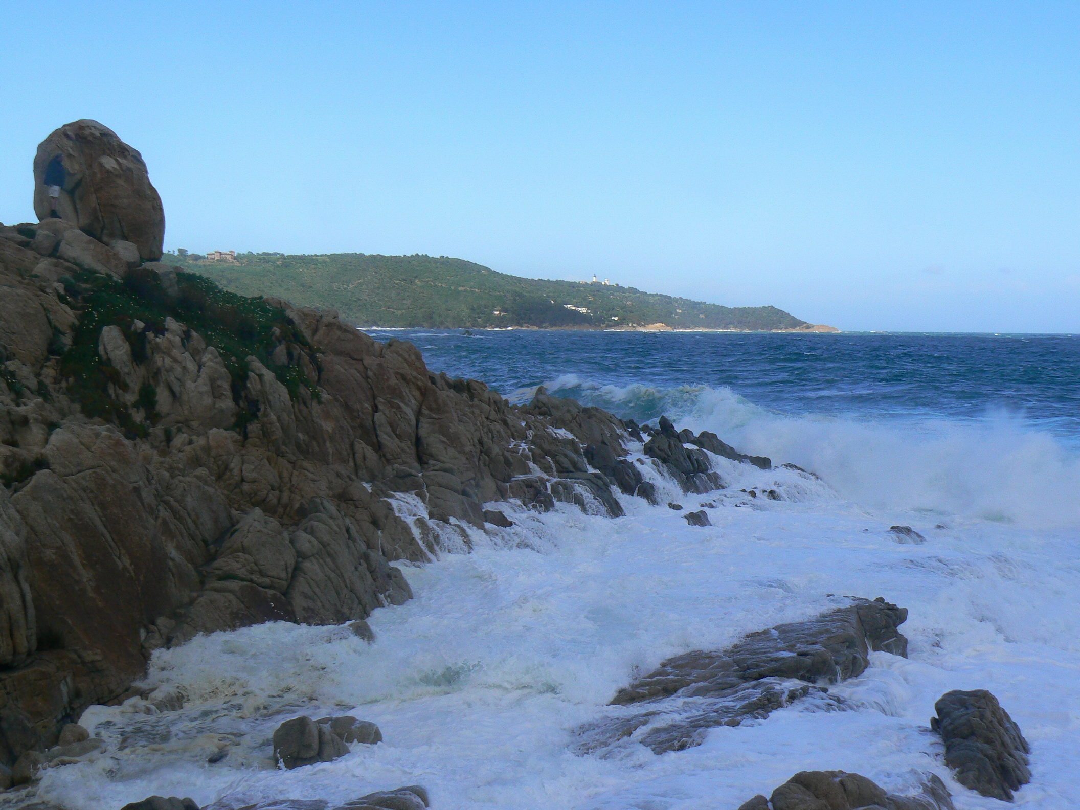 View on Cap Camarat, Ramatuelle (Var), France, from the beach of l'Escalet